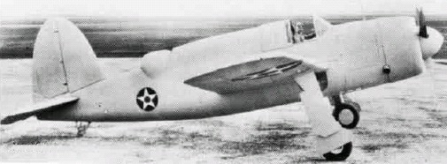 The Brewster XSB2A Buccaneer prototype, in 1941.